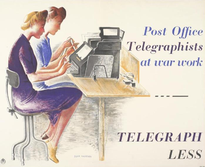 Telegraph Less whole: the image is positioned to the left, with the text placed upper right and the title lower right. image: two telegraphists sitting in profile, side-by-side. The nearer one types telegrams on a large black typewriter, while the other feeds in telegram strips. text: Post Office Telegraphists at war work TELEGRAPH LESS DONIA NACHSHEN GPO PRINTED FOR H.M.S.O BY JOHNSON, RIDDLE AND CO., LTD. LONDON,S.E.20. 51-3925 PRD 317.